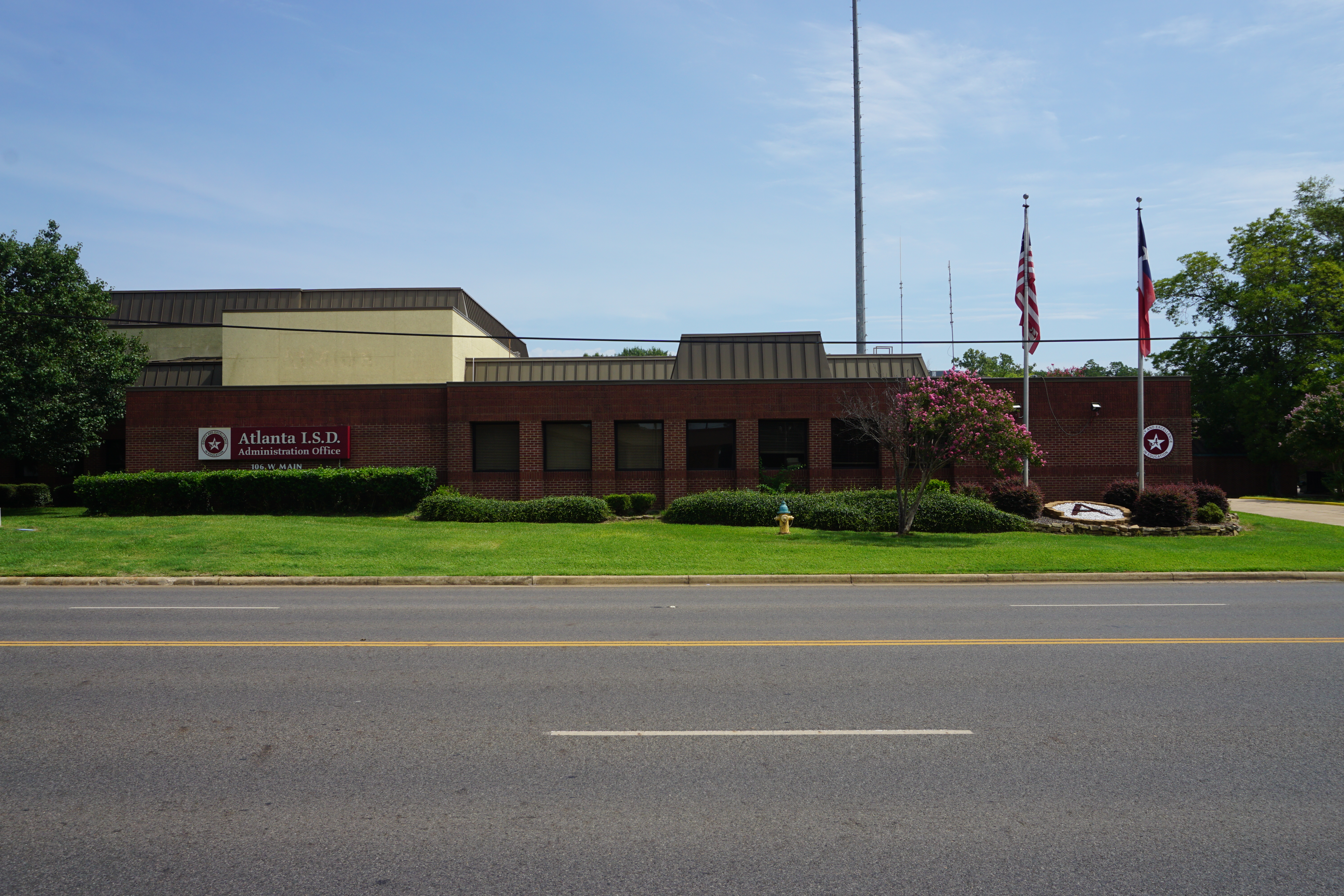 The Atlanta ISD Administration Office in Atlanta, Texas (United States).